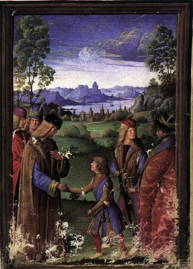 Maximilian Sforza (right) meet Emperor Maximilian I. (left) (Milan, Castello Sforzesco, Biblioteca Trivulziana) This small codex consists only 14 leaves and contains short texts to be used in the education of Massimiliano Sforza (1493-1530), the son of Ludovico il Moro, Duke of Milan and Beatrice d'Este. It is decorated with numerous initials, three historiated initials, and four full-page miniatures. Most of the scenes in the manuscript are by Giovanni Pietro Birago, a Lombard artist whose work is of somewhat mediocre quality. However, the miniature on folio 6 is of much higher quality. It represents the meeting between Massimiliano Sforza and the Emperor Maximilian, which took place at Bormio on 25 July 1496. This fine miniature is attributed to Boccaccio Boccaccino, one of the finest Milanese artists of the late fifteenth century. He was an illuminator, but worked mainly as a painter in Cremona and Ferrara.